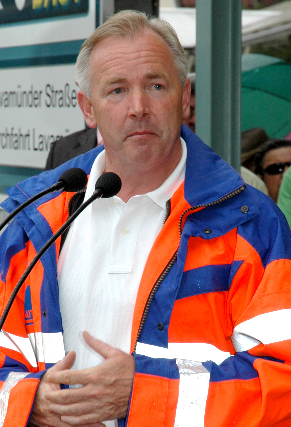 Gerhard Dörfler, Landeshauptmann von Kärnten.